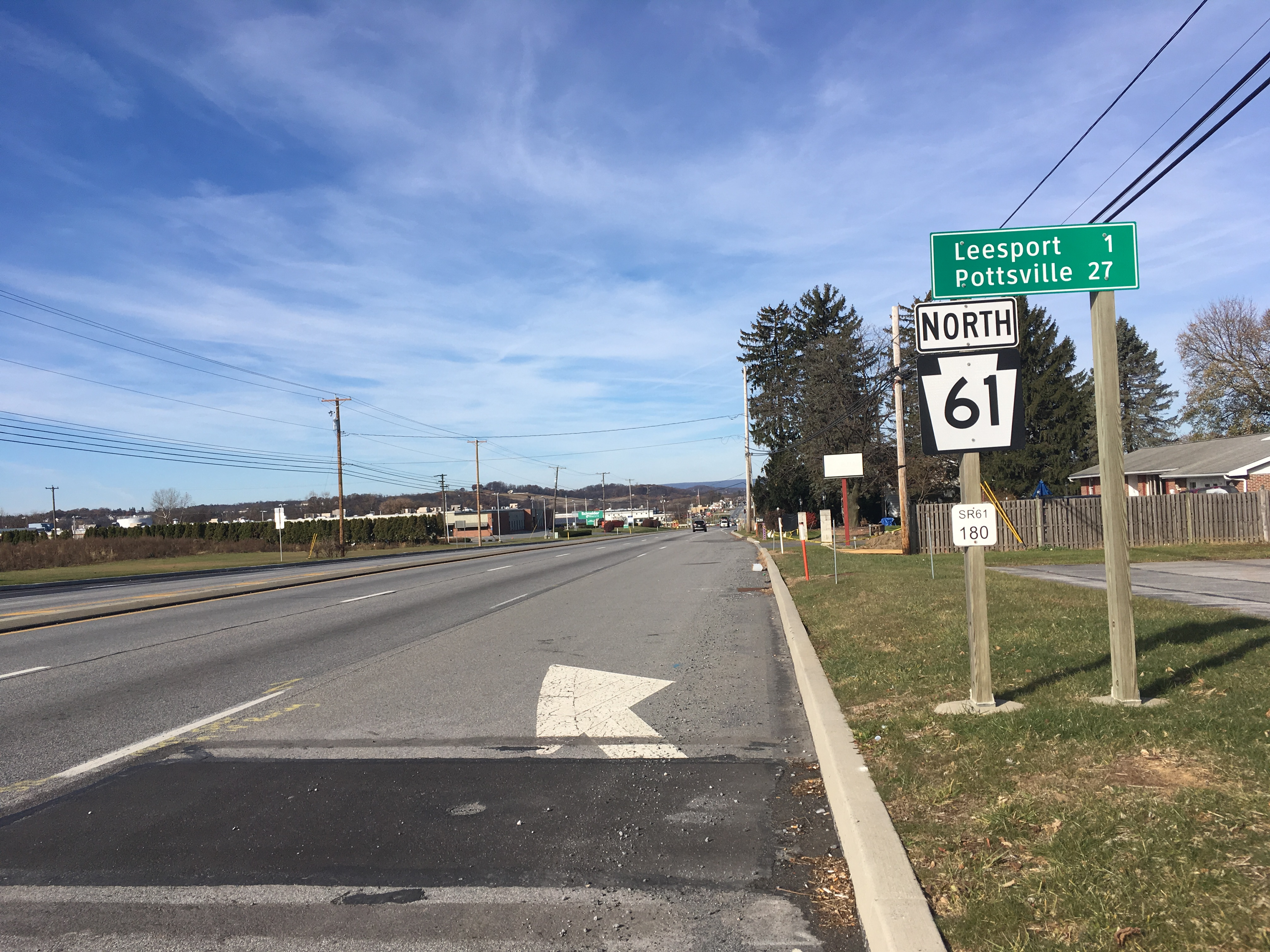 Northbound Pennsylvania Route 61 (Pottsville Pike) past the intersection with the western terminus of Pennsylvania Route 73 (Lake Shore Drive) in Leesport, Pennsylvania